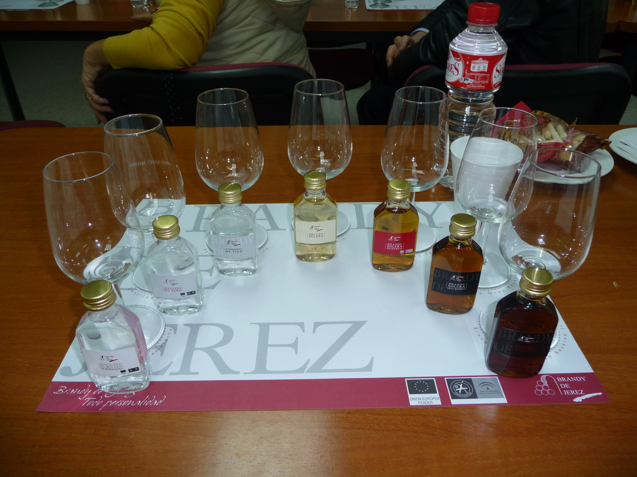 Brandy de Jerez tasting session in University of Cadiz